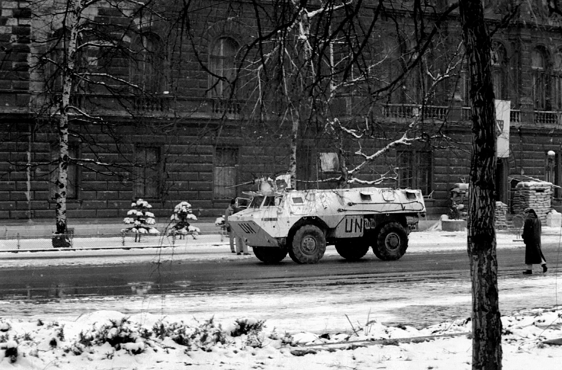 A United Nations Protection Force (UNPROFOR) armoured personnel carrier passes the Presidency building in Sarajevo in the winter of 1992-1993. Christian Maréchal photo